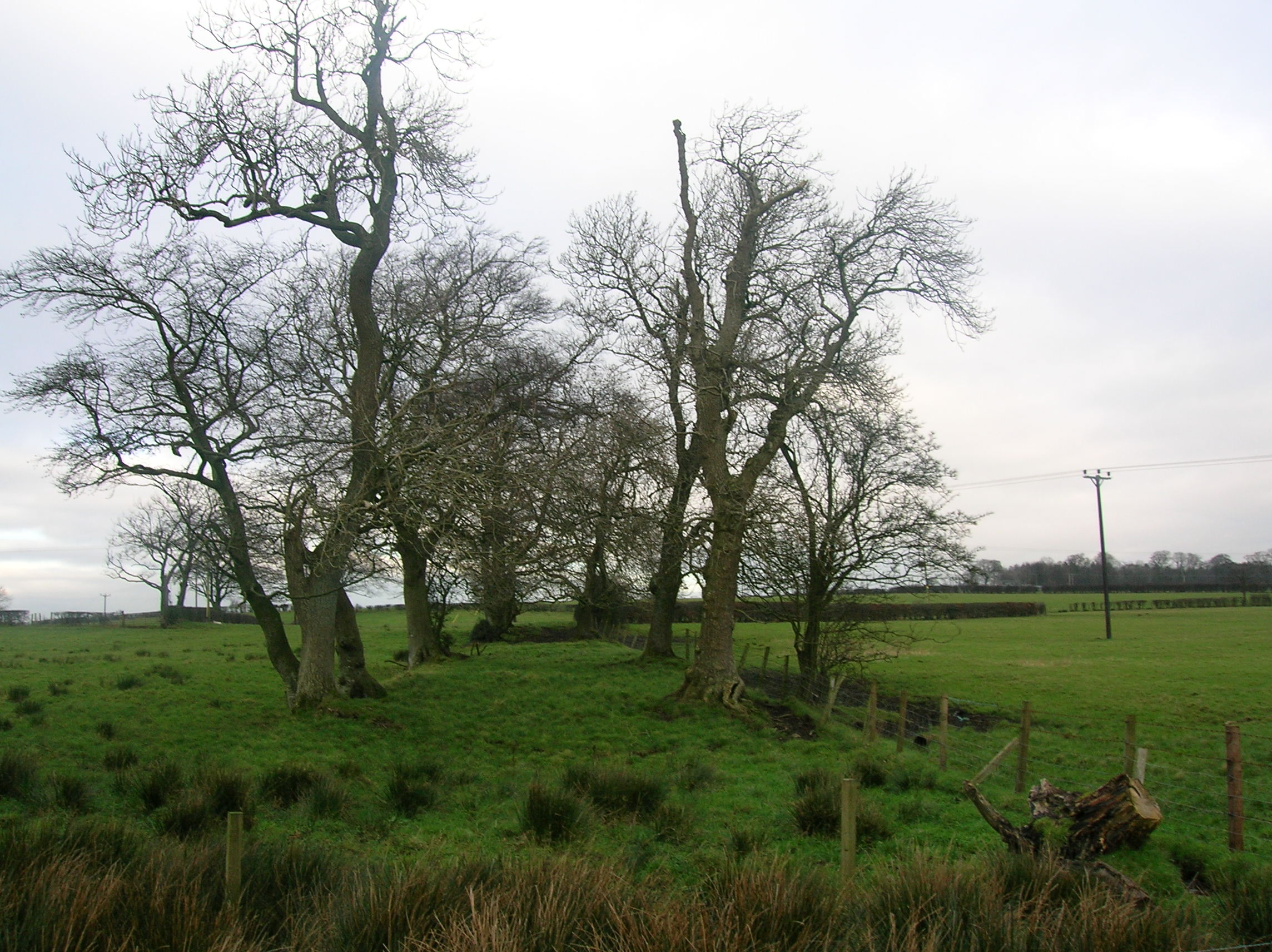 The shelter belt and site (on the right) of Wattshode farm near Chapeltoun in East Ayrshire.